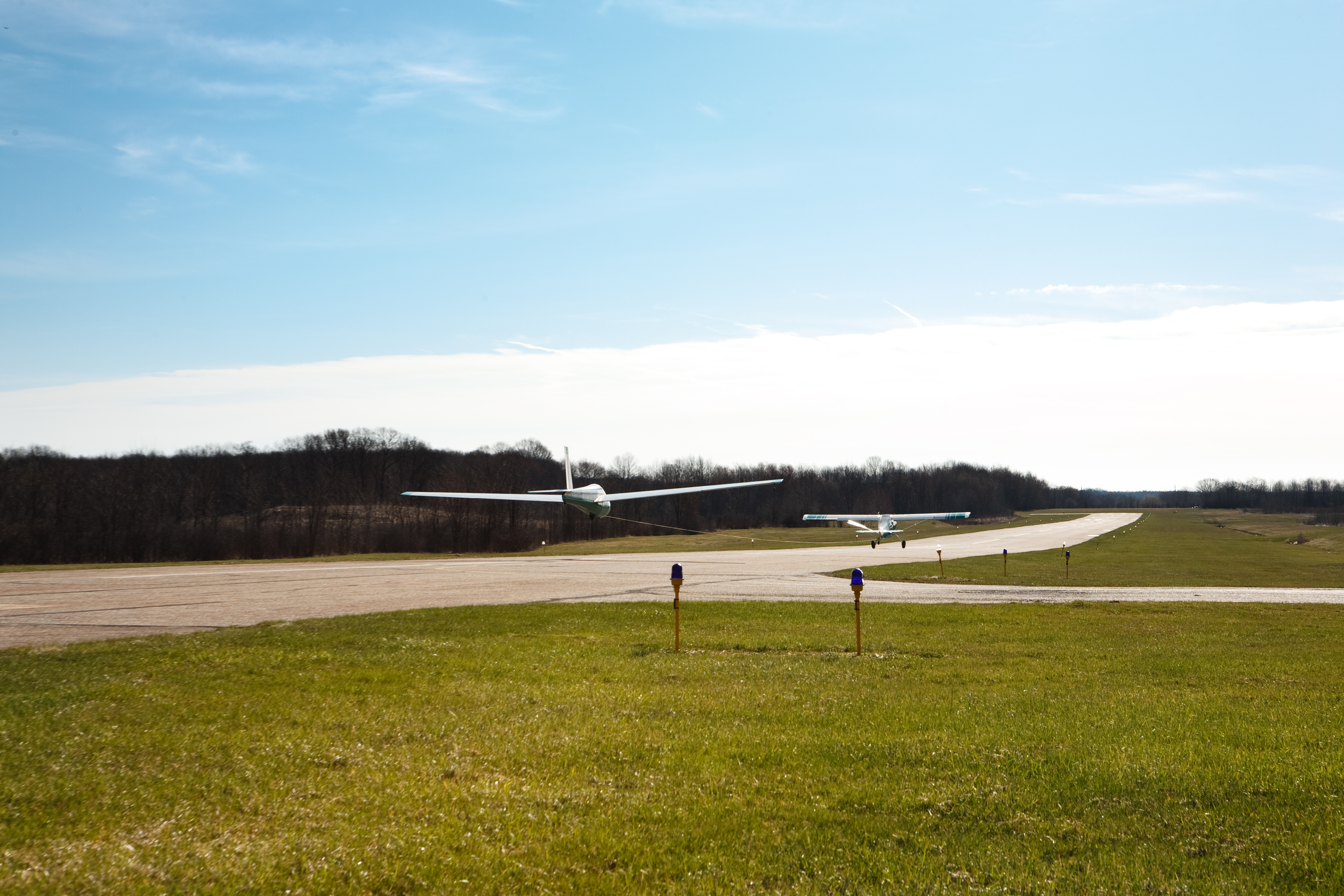 Gliders taking off at Geauga County Airport in Middlefield, Ohio.